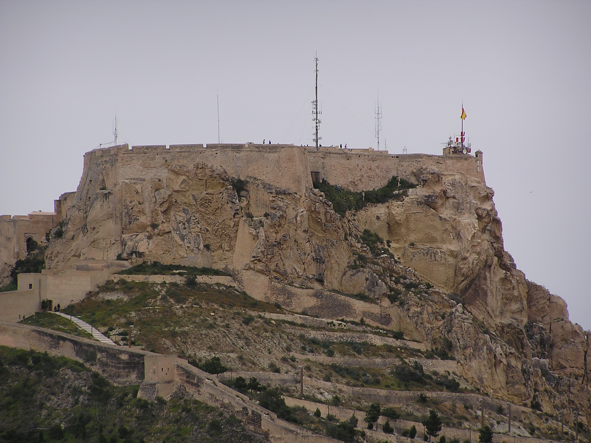 Santa Barbara Castle, view from the Castle of San Fernando